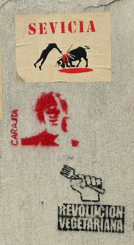 Anti-bullfight graffiti in Bogotá